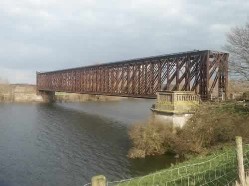 Griethausen, Germany, eldest steelbridge for trains